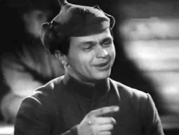 Aleksandr Melnikov as Vaska in Moya Rodina (1933)